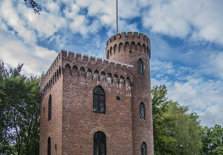 Nebotower